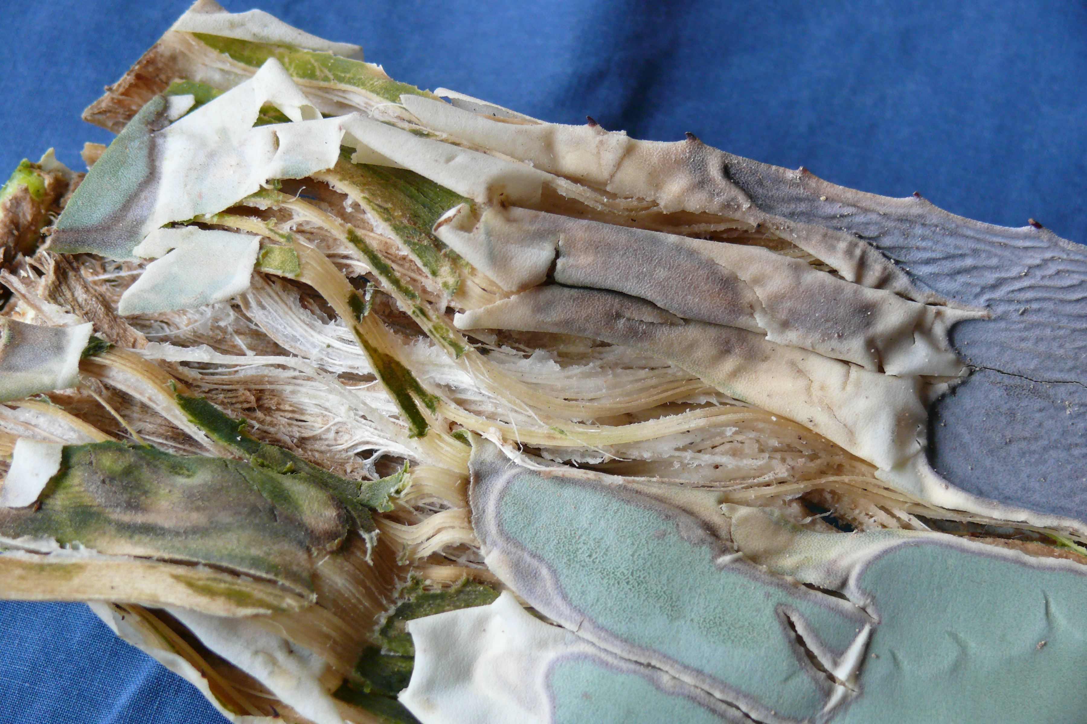 Fibers inside the leaves of a Huachuca Agave (Agave parryi var. huachucensis).